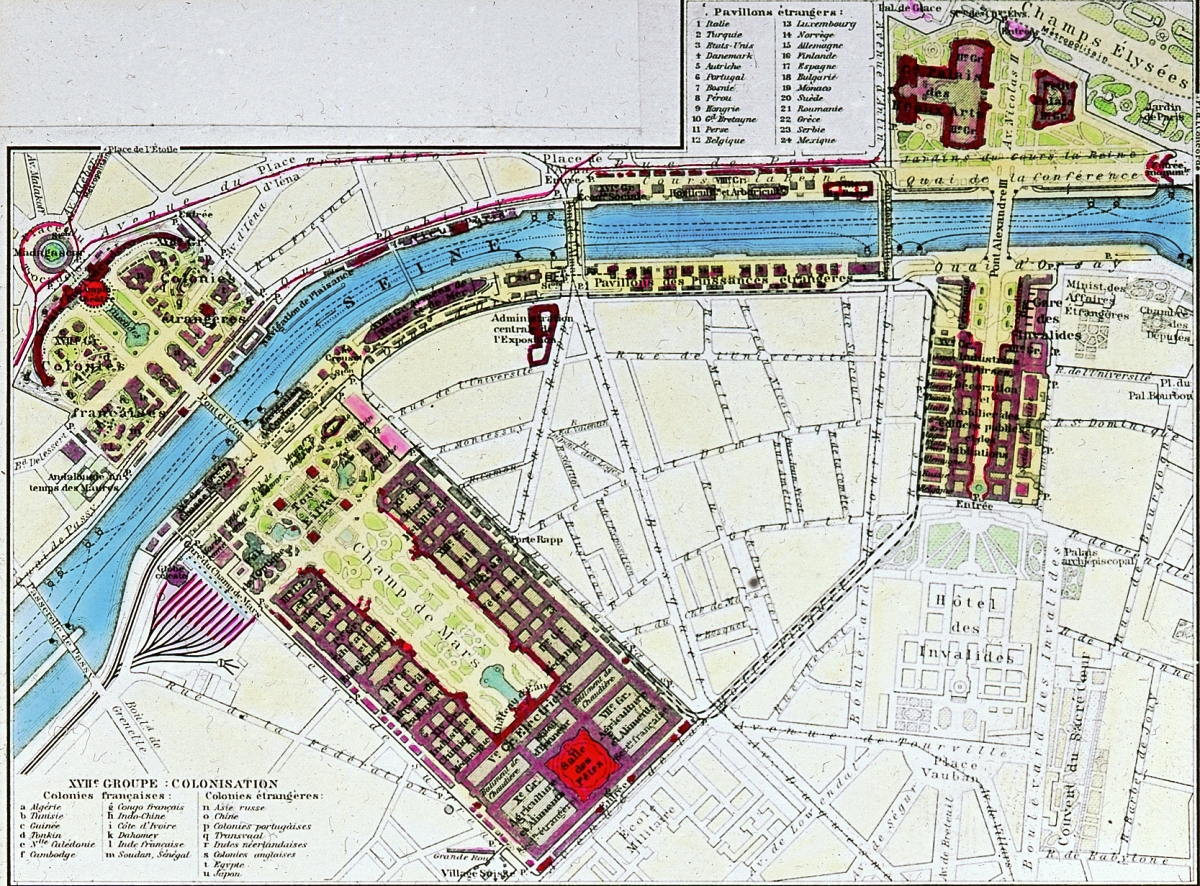 original description: Paris Exposition: map, Paris, France, 1900. Map of exhibition layout. Brooklyn Museum Archives. Image : S03_06_01_015, image 2007.